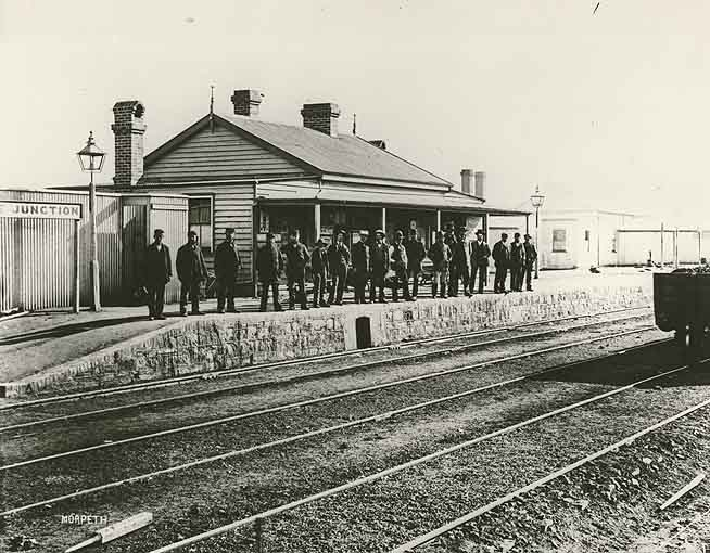 Junee Railway Station Dated: c. 31 December 1882 Digital ID: 17420_a014_a014000624 Rights: We'd love to hear from you if you use our photos. Many other photos in our collection are available to view and browse on our website using Photo Investigator.